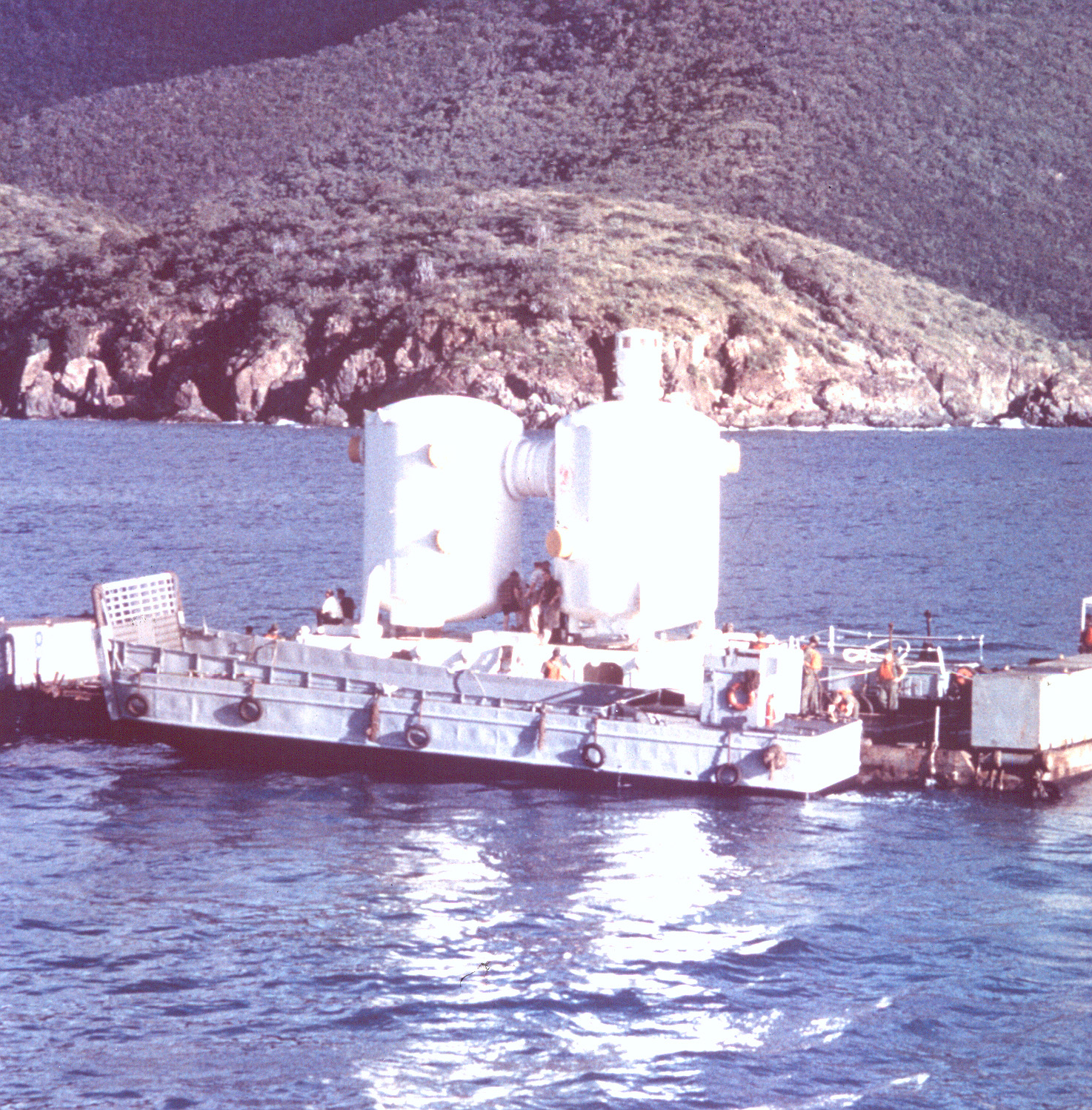 Description: Tektite Habitat was an underwater laboratory which was the home to divers during Tektite I and II programs. The Tektite program was the first scientists-in-the-sea program sponsored nationally. The habitat capsule was placed in Great Lameshur Bay, Saint John, U.S. Virgin Islands in 1969 and again in 1970